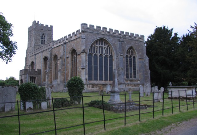 Parish church of St Lawrence, Willington, Bedfordshire, seen from the east